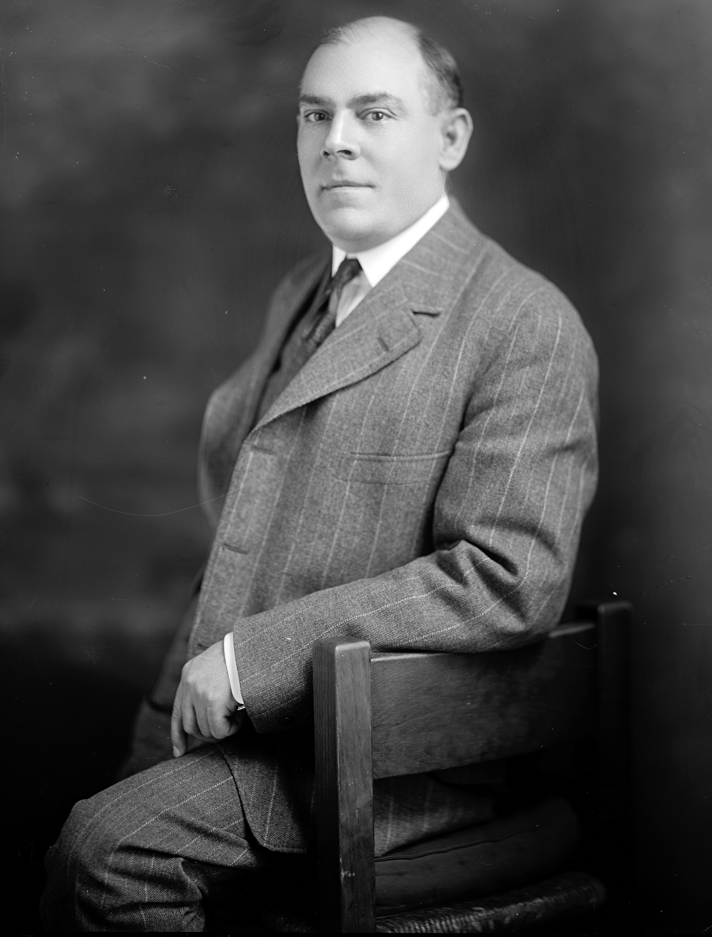 Lewis L. Morgan, US Representative from Louisiana